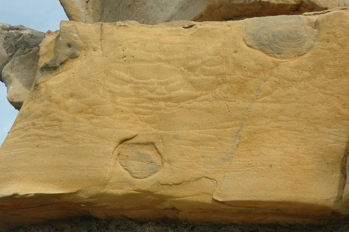 Dish structure from Northern California. Courtesy Zoltan Sylvester, who has granted permission by e-mail.